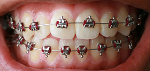 four weeks with my braces on. my teeth have moved a lot and i still have 14 more months to go! i went to the dentist- so this isn't the most recent picture.